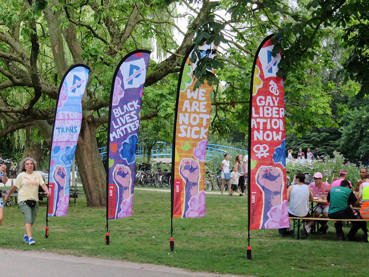 Banners with slogans according to the theme of 2019 of Pride Amsterdam: "Remember the past, create the future" - here seen during the Pride Park event.